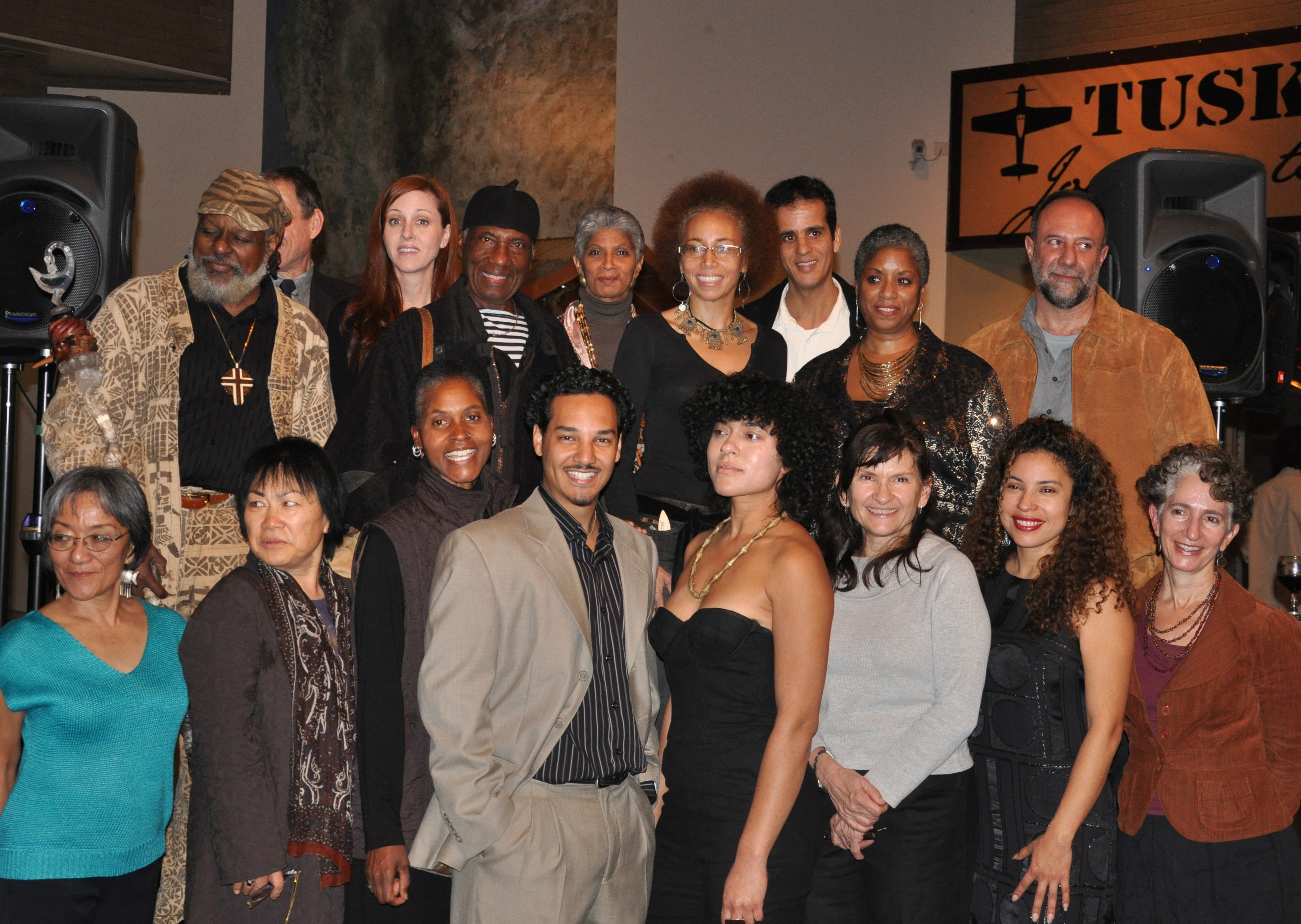 Graham Goddard and artists in the exhibition "An Idea Called Tomorrow at the California African American Museum, 2009. Artists- Top row (From Left to Right): Charles Dickson, Erin Clancey (Curator- The Skirball Museum), John Outterbridge, Charmaine Jefferson (Museum Director- CAAM), Michele Lee (Curator- CAAM), Abdelali Dahrouch, Sonia BasSheva Manjon, and John Halaka. Front row (From left to right): Betty Nobue Kano, Yong Soon Min, Dominique Moody, Graham Goddard, Ingrid Von Sydow, Kim Abeles, Jane Castillo, and Joyce Dallal.